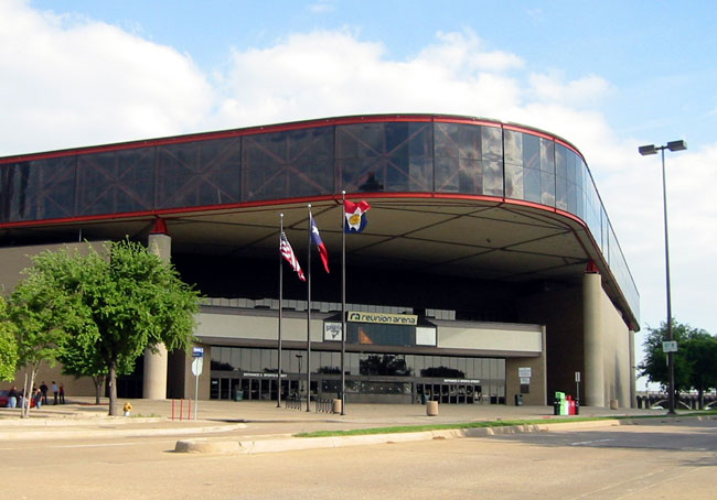 Reunion Arena in Dallas, Texas. Personal picture taken April 17, 2004. Category:Images of Texas